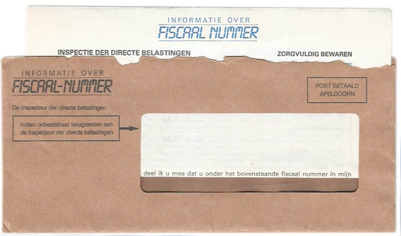 The Fiscaal nummer was the first personal number that Dutch citizen (those who pay taxes) received in 1985